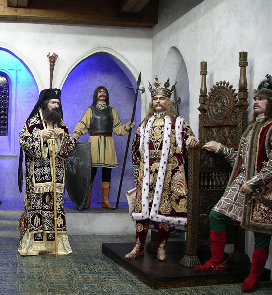 Bukovina Museum in Suceava / Suceava History Museum – reconstruction of Stephen III of Moldavia throne hall.